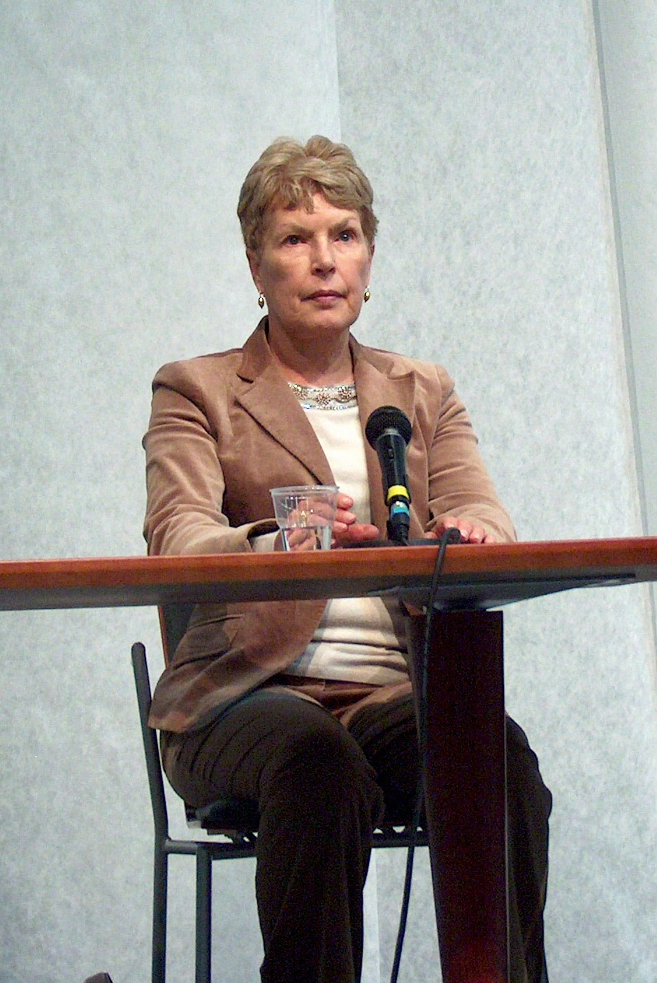 Crime writer Ruth Rendell was at the Helsinki Book Fair 2005